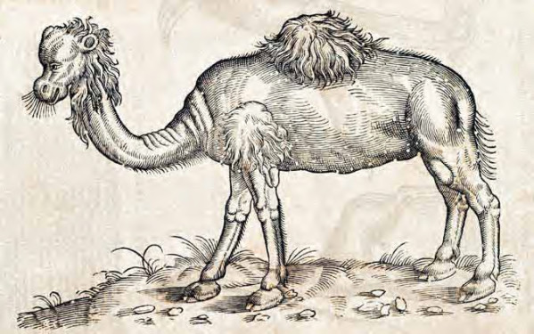 This woodcut is an illustration from the book The history of four-footed beasts and serpents by Edward Topsell.